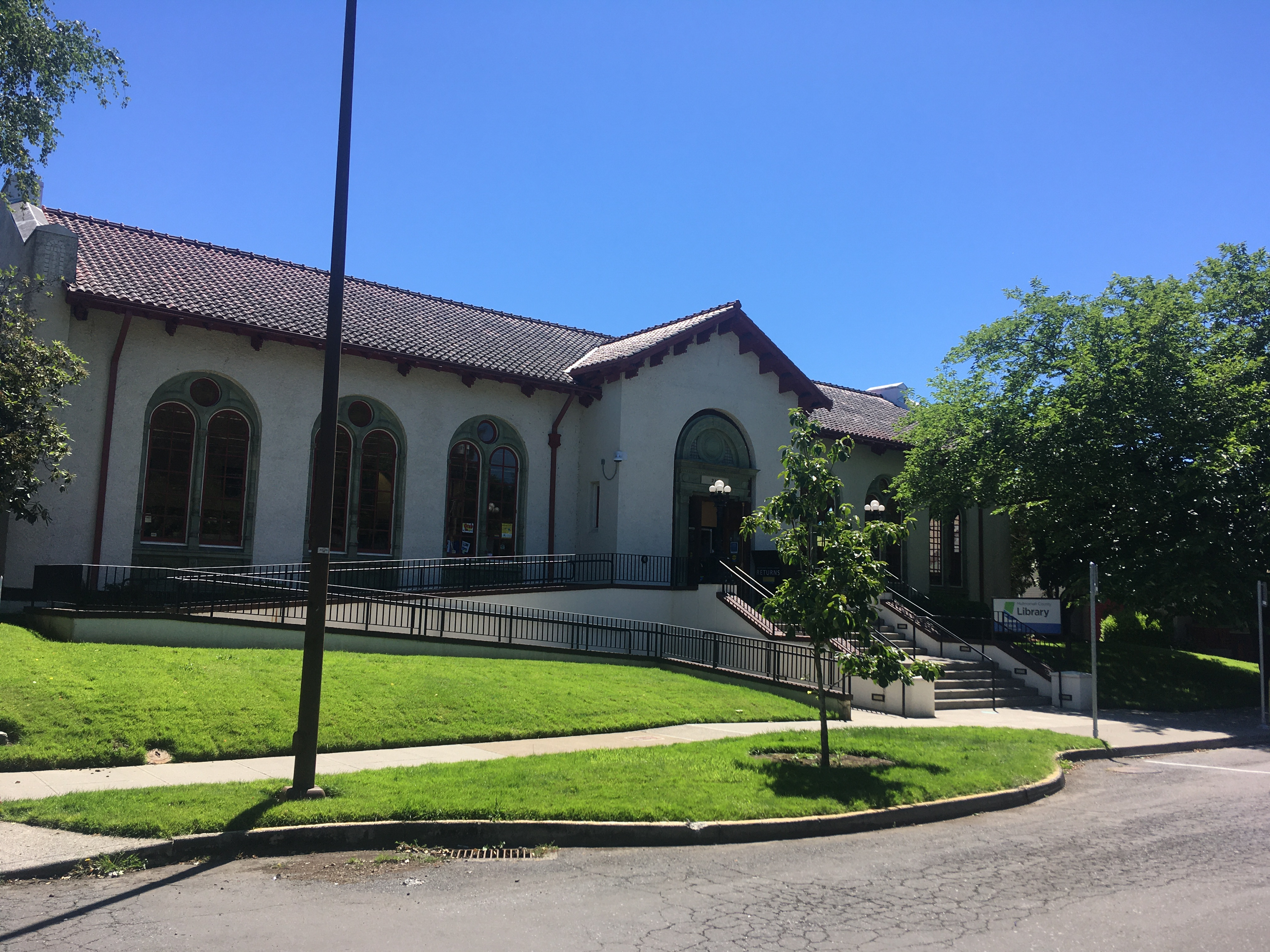 Albina Library, a branch of the Multnomah County Library, in Portland in the U.S. state of Oregon